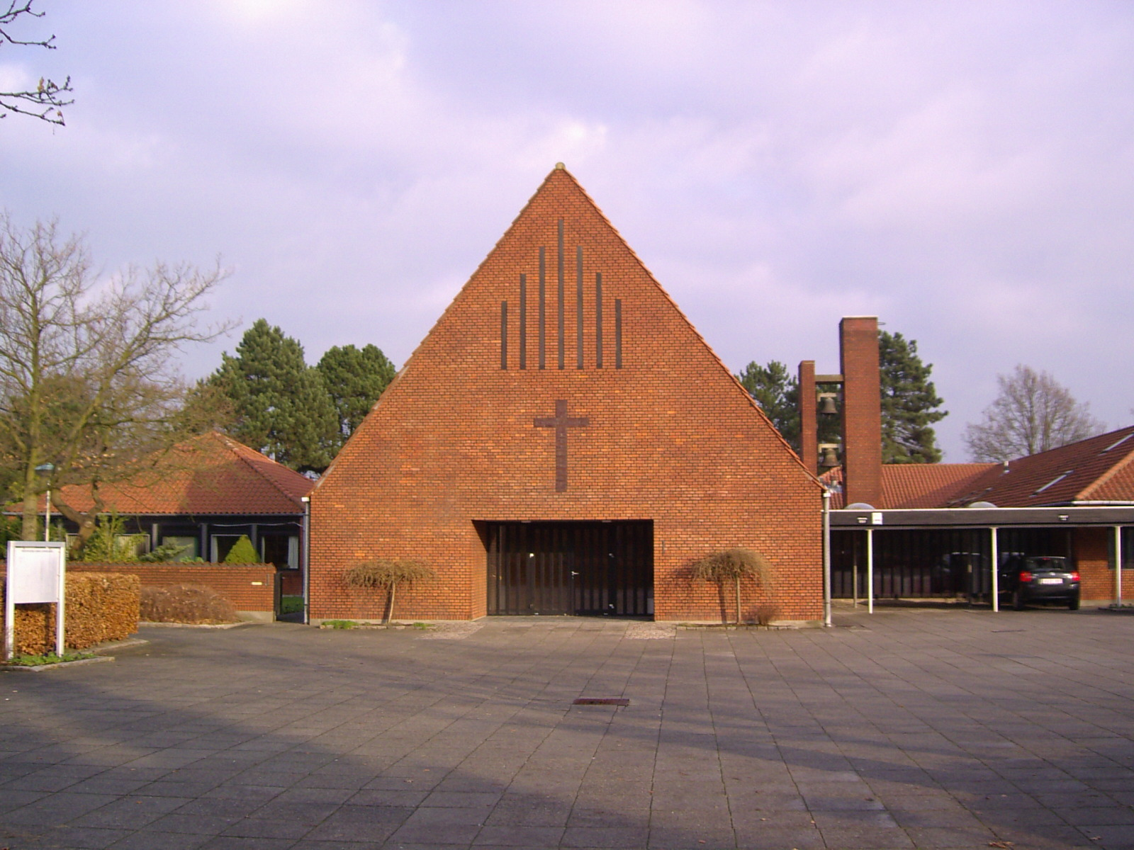 Church in Ballerup, Community of Ballerup, diocese of Helsingør. Date: 2006.11.25 Author: Sir48